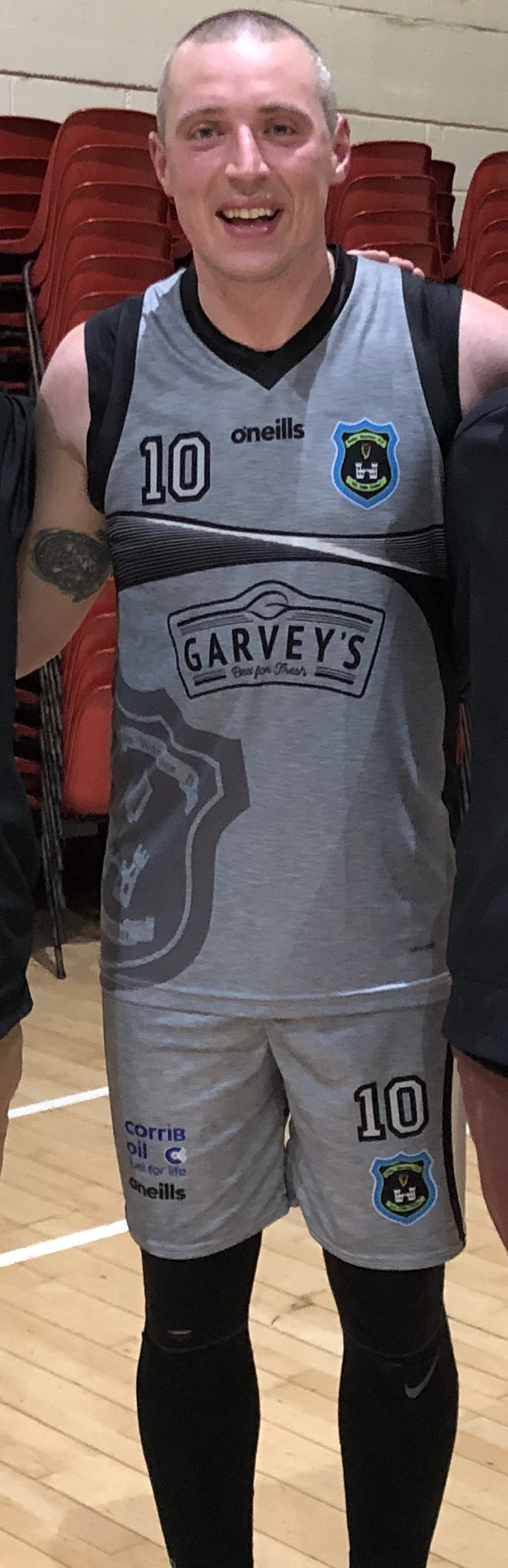 Kieran Donaghy with Tralee Warriors of the Irish Super League, following Tralee's win over Neptune in Cork at Neptune Stadium